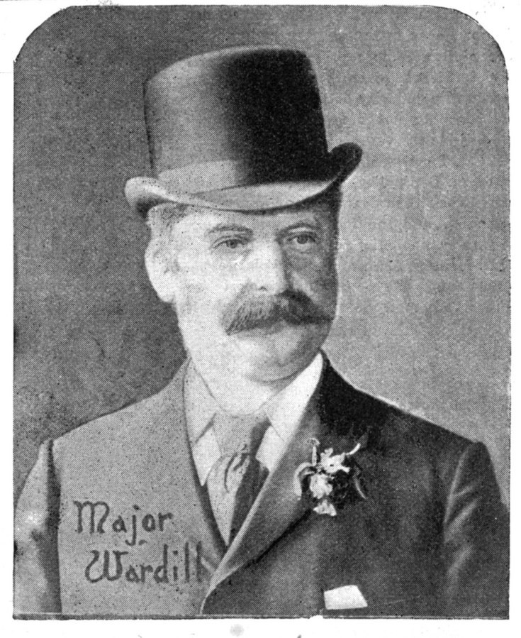 A photomechanical print of Benjamin Wardill (often referred to as "Major Wardill"), a prominent cricket administrator in Melbourne, Australia.